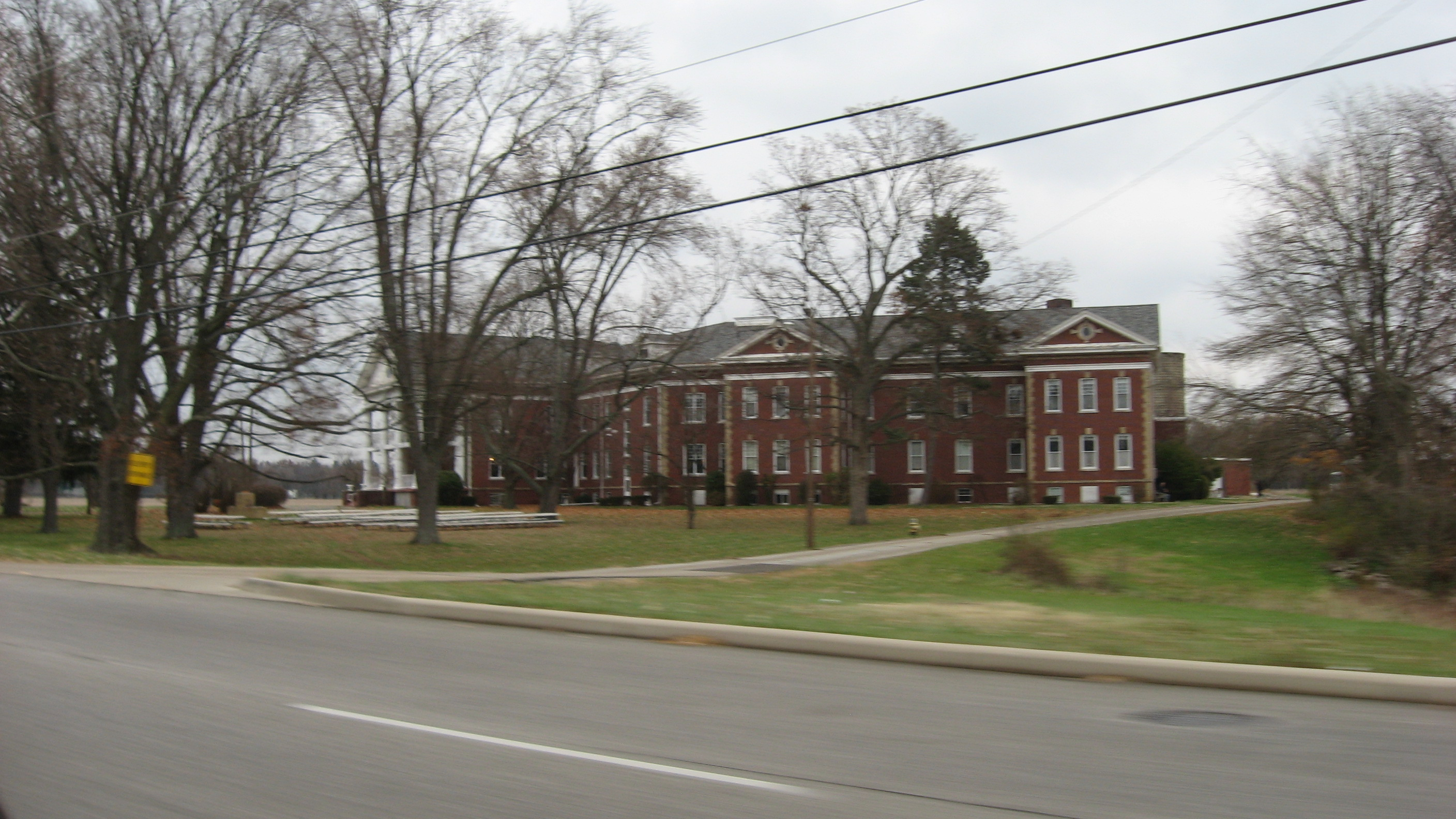 Front of the St. Joseph County Infirmary, located at 3016 Portage Avenue in South Bend, Indiana, United States. Built in 1906, it is listed on the National Register of Historic Places.